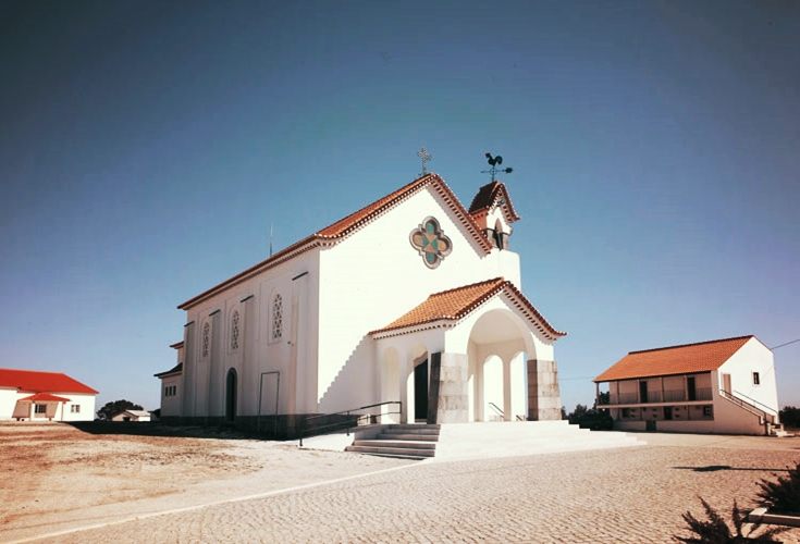 The Sanctuary of Our Lady of Ortiga, in the parish of Fátima, Portugal.